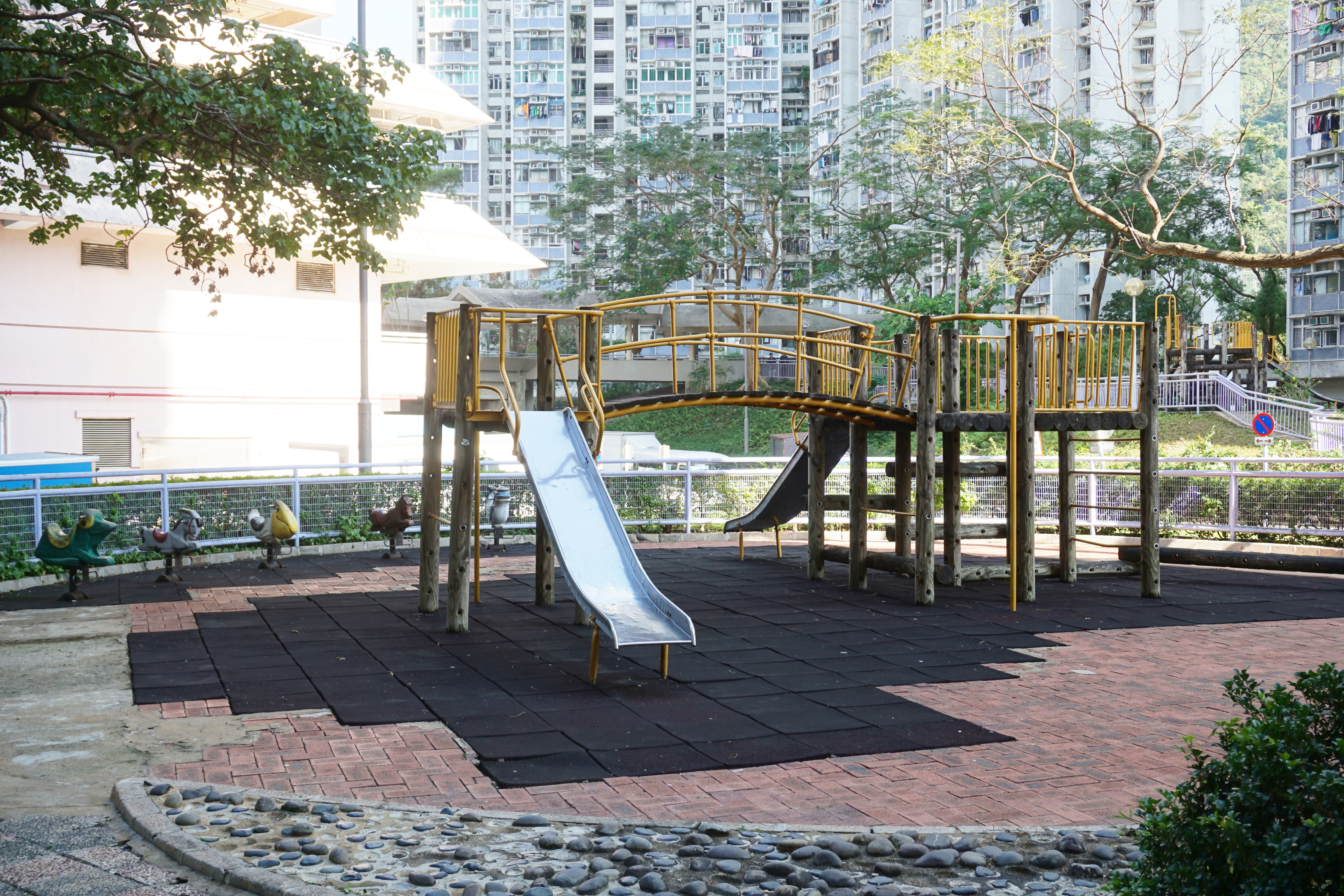 Heng On Estate in Heng On, Hong Kong.